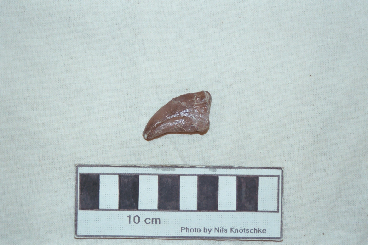 Claw of Europasaurus holgeri.